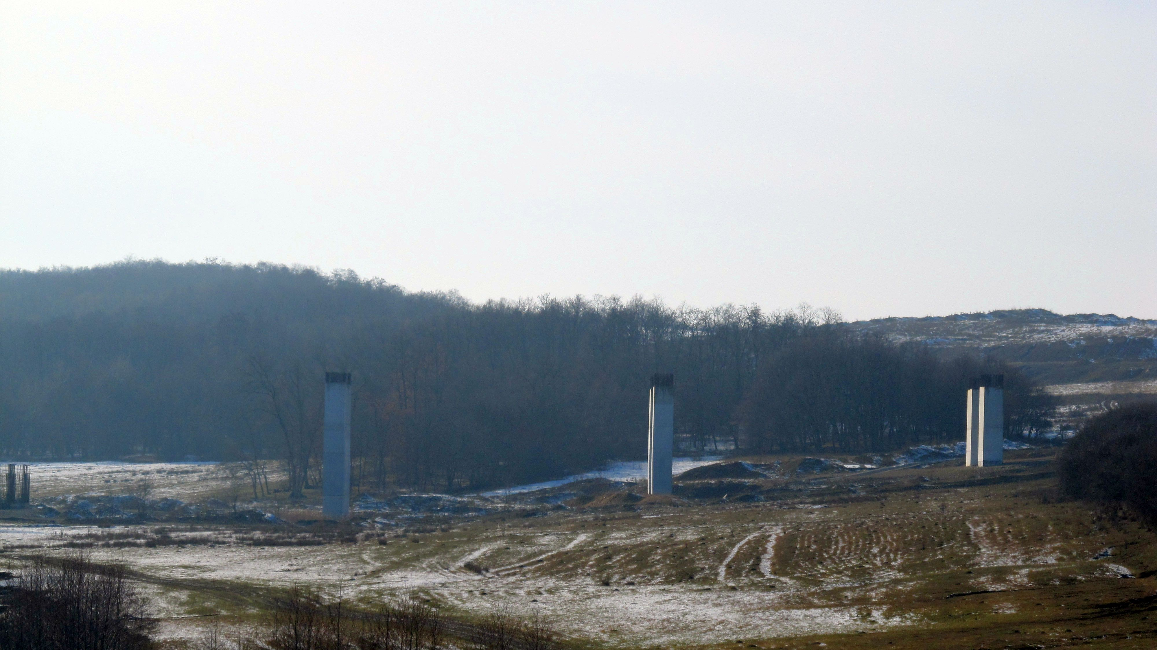 Unfinished viaduct at Dolea, on section 3C of Transylvania Motorway, part of the A3 motorway in Romania.